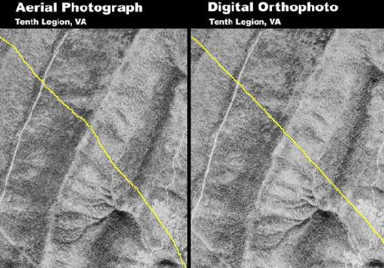 United States Geological Survey